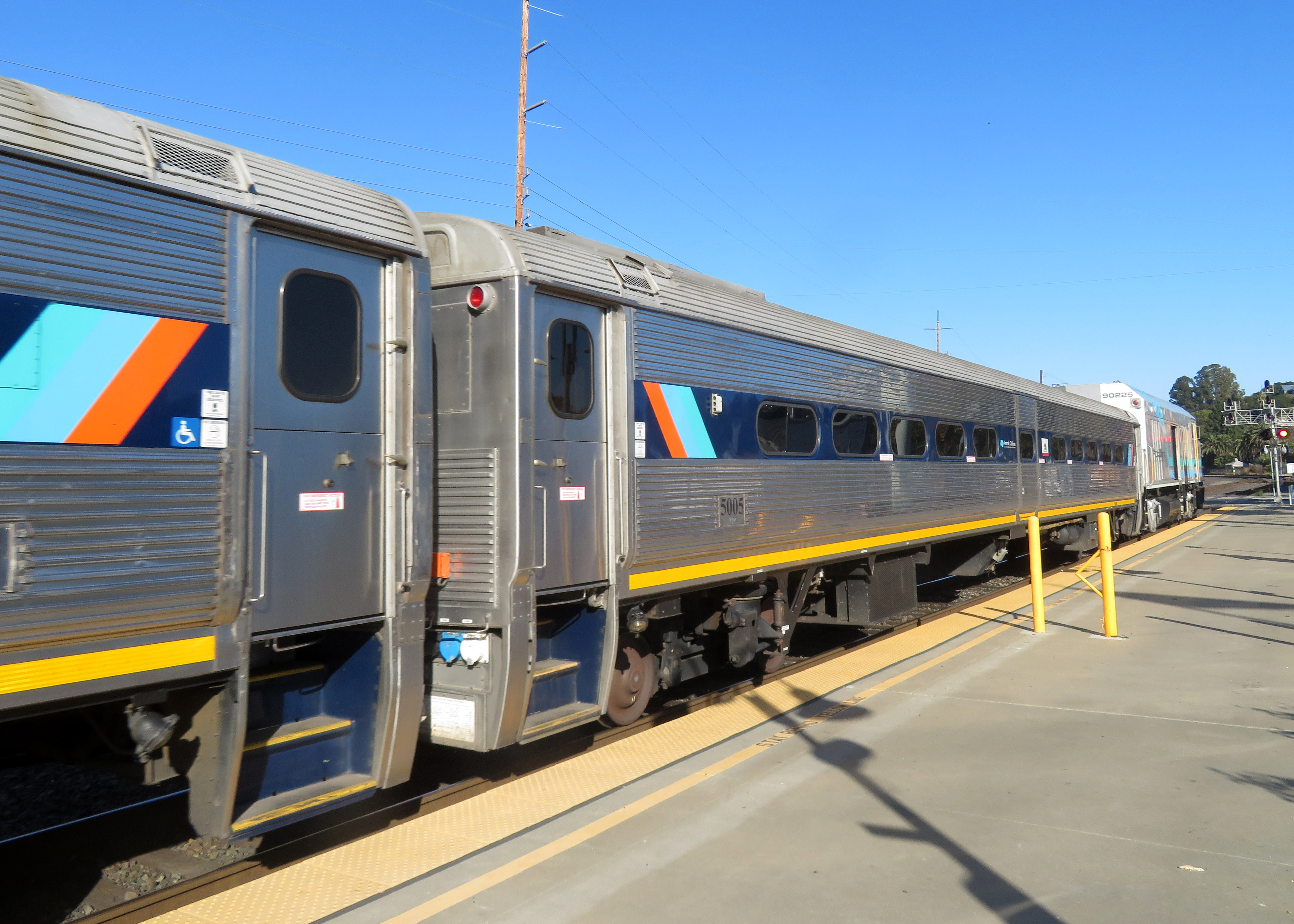 Comet IB cars on an Oakland-bound San Joaquin at Martinez station in November 2019